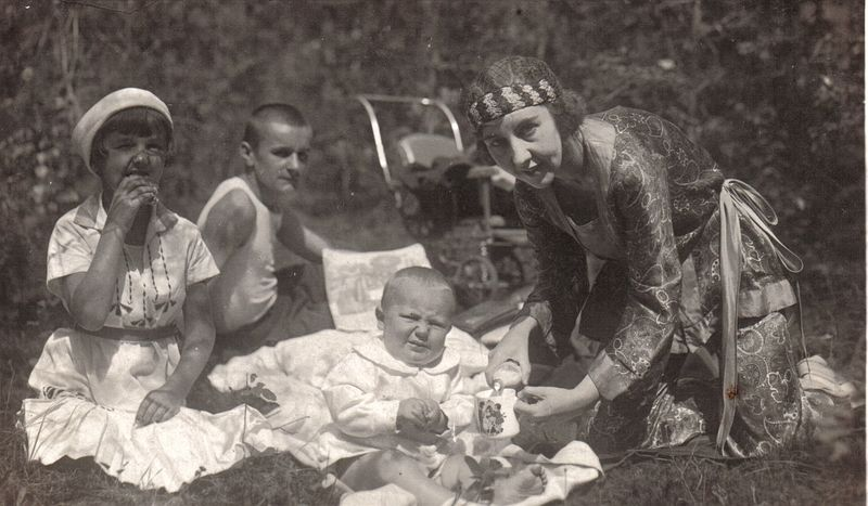 Anna Rudawcowa with her family on a picnic. Anna Rudawcowa (1905-1981) - Polish poet and writer, teacher, Polish patriotic activist; during WWII an exile to Siberia (Russia).